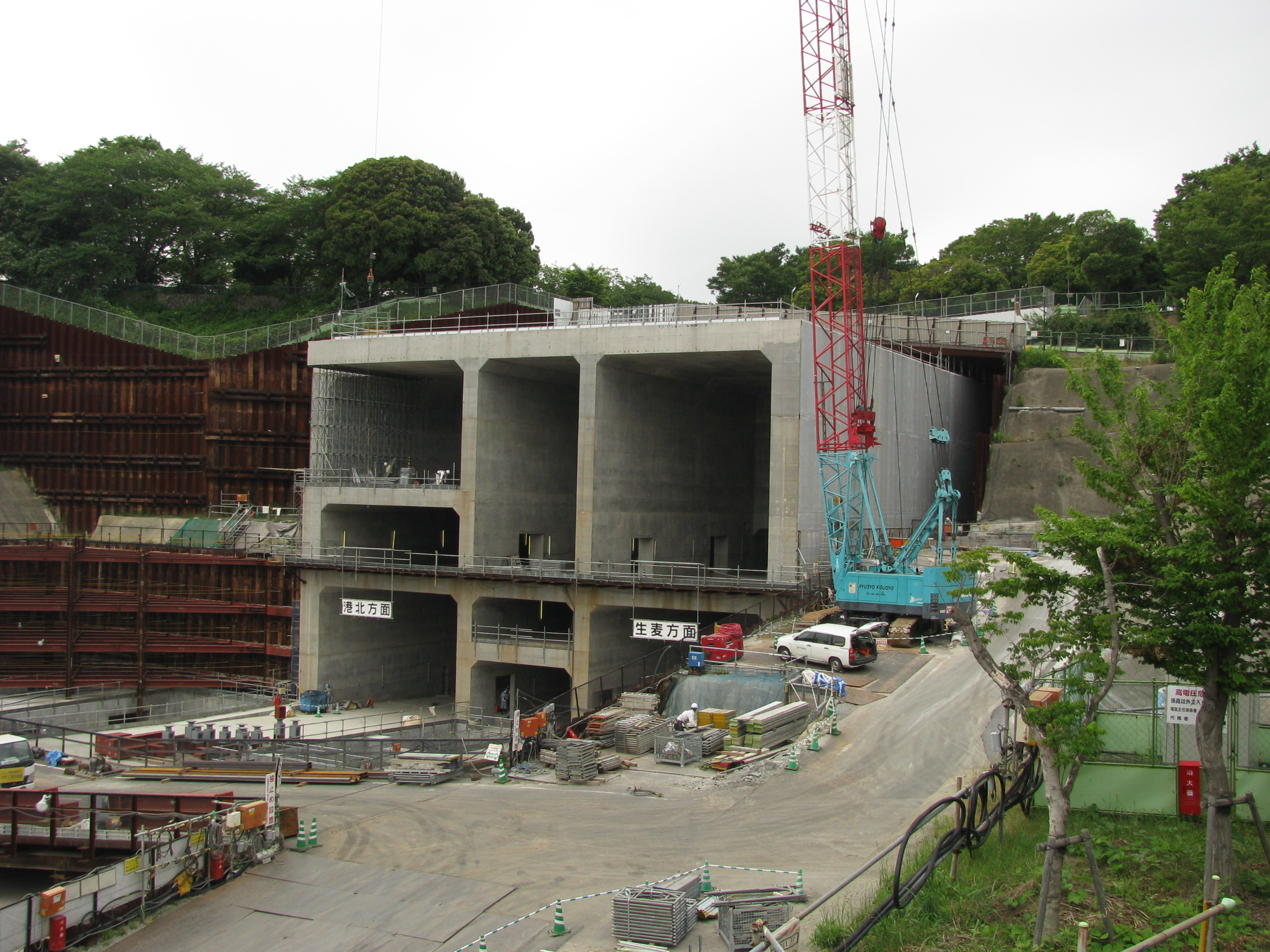 The Yokohama-kita line of Shuto Expressway. This place is Namamugi in Tsurumi-ku, Yokohama, Kanagawa, Japan.